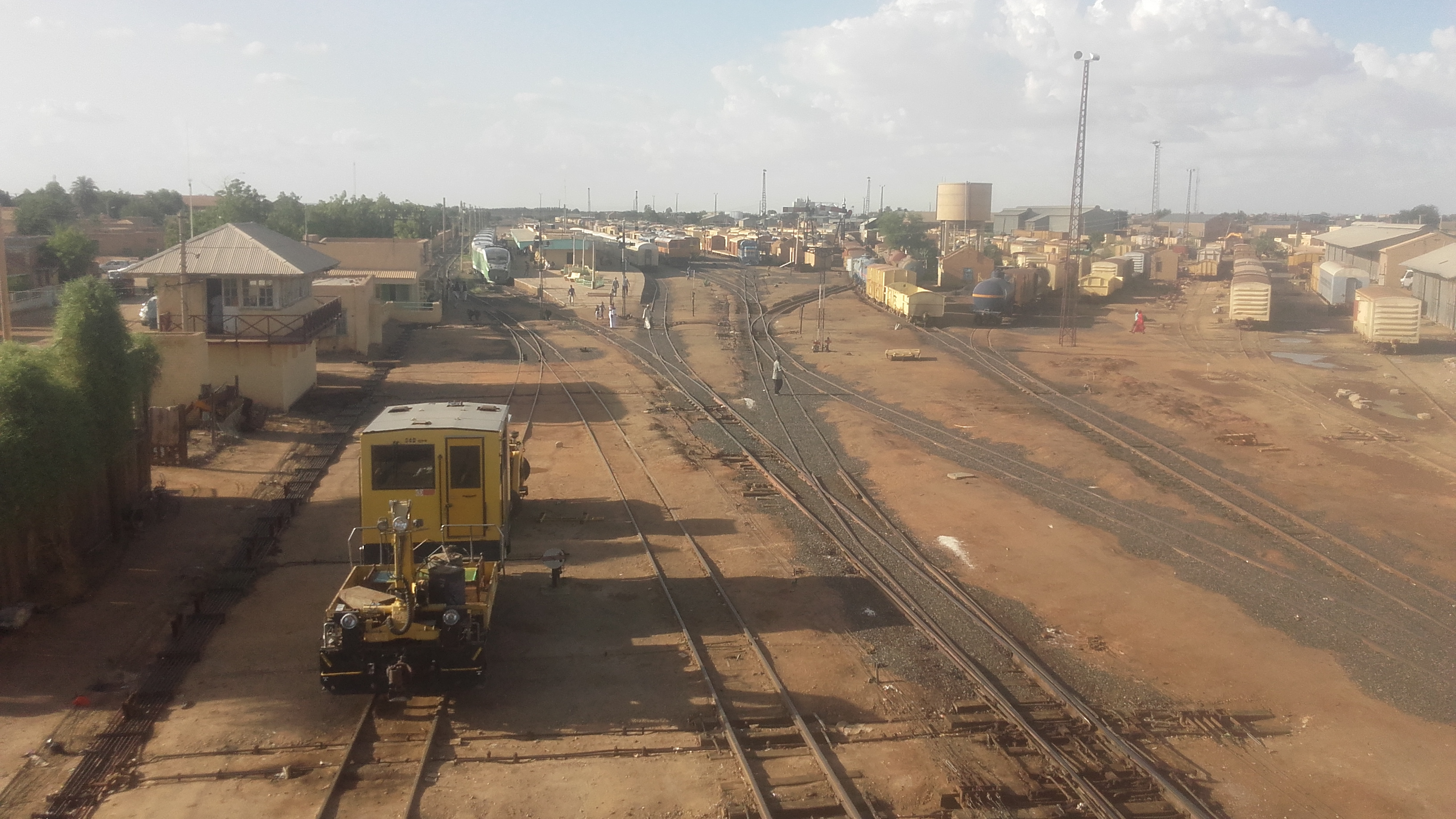 this picture from Railway station in Atbara City in Sudan country